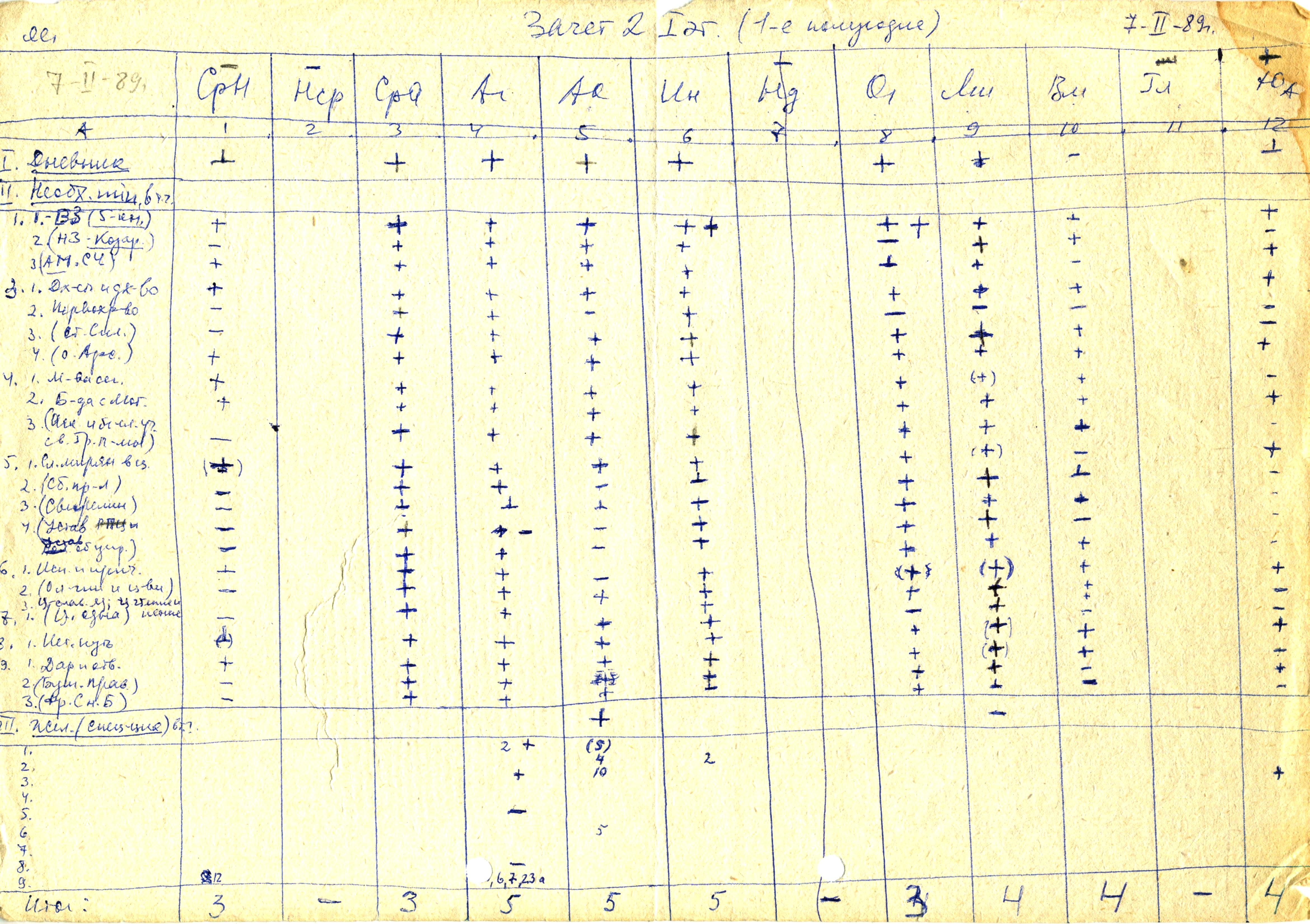 St Philaret's Christian Institute (Moscow) examination report with encoded student's names